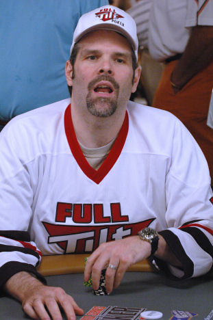 Howard Lederer in 2006 World Series of Poker - Rio Las Vegas.